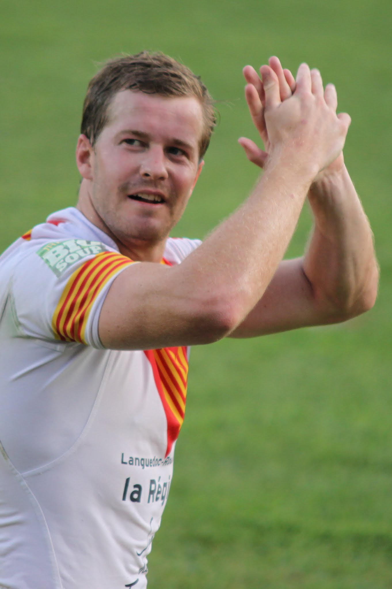 Australian rugby league player, Scott Dureau.